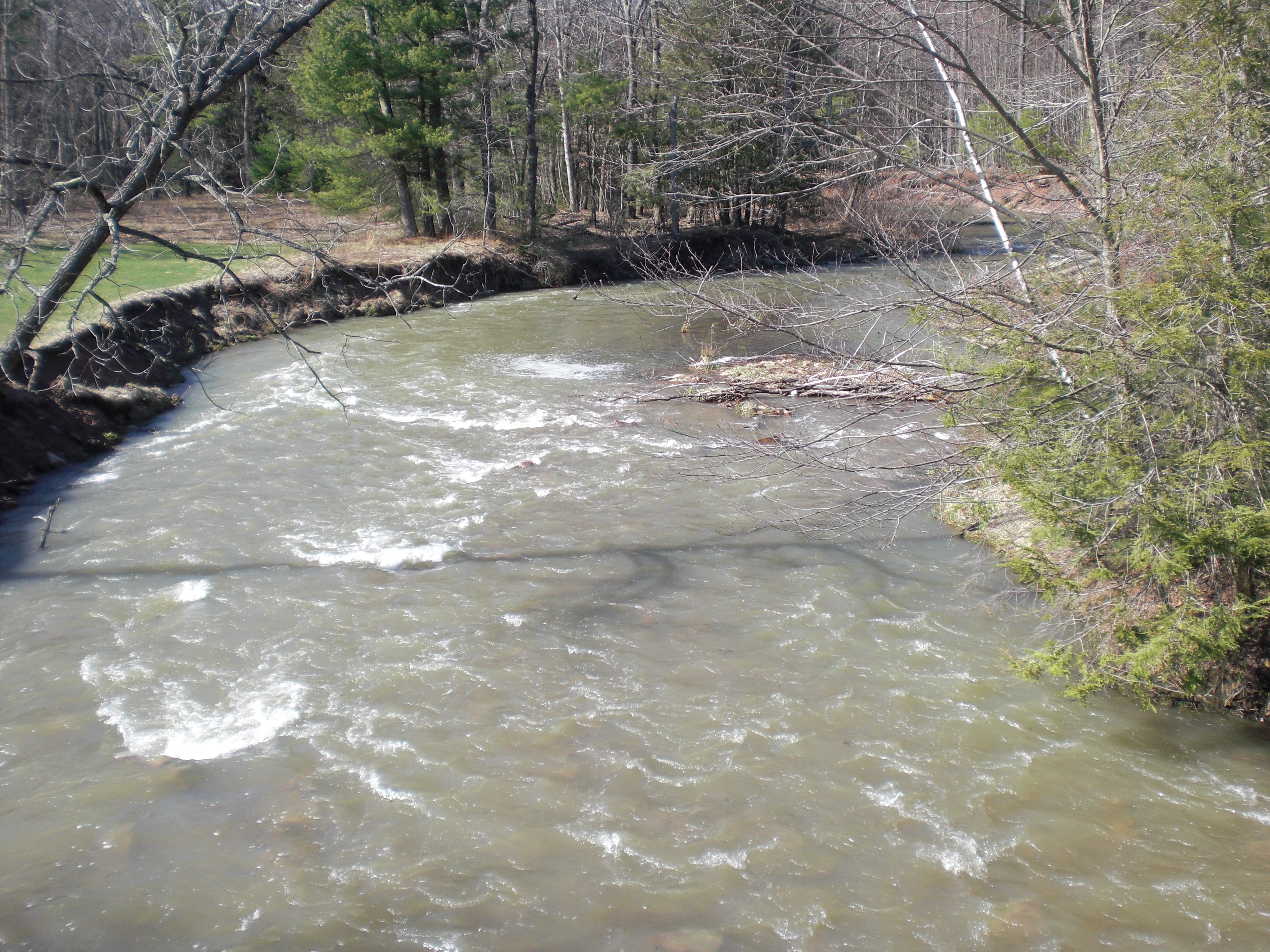 Little Nescopeck Creek looking downstream near its mouth